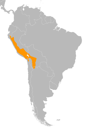 Distribution map of bare-faced ground dove (Metriopelia ceciliae), based on IUCN data